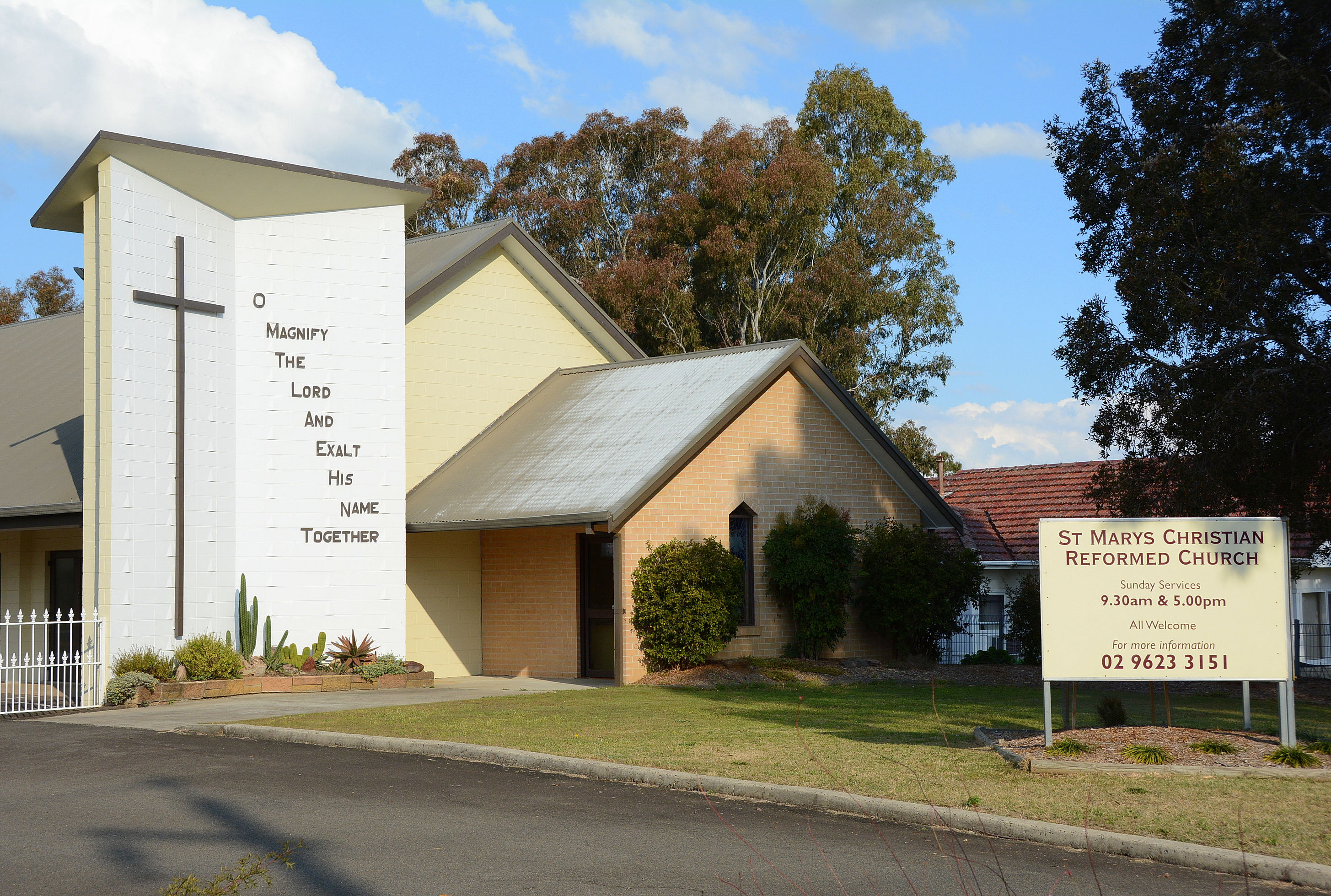 Christian Reformed Church, Marsden Road, Colyton, Sydney